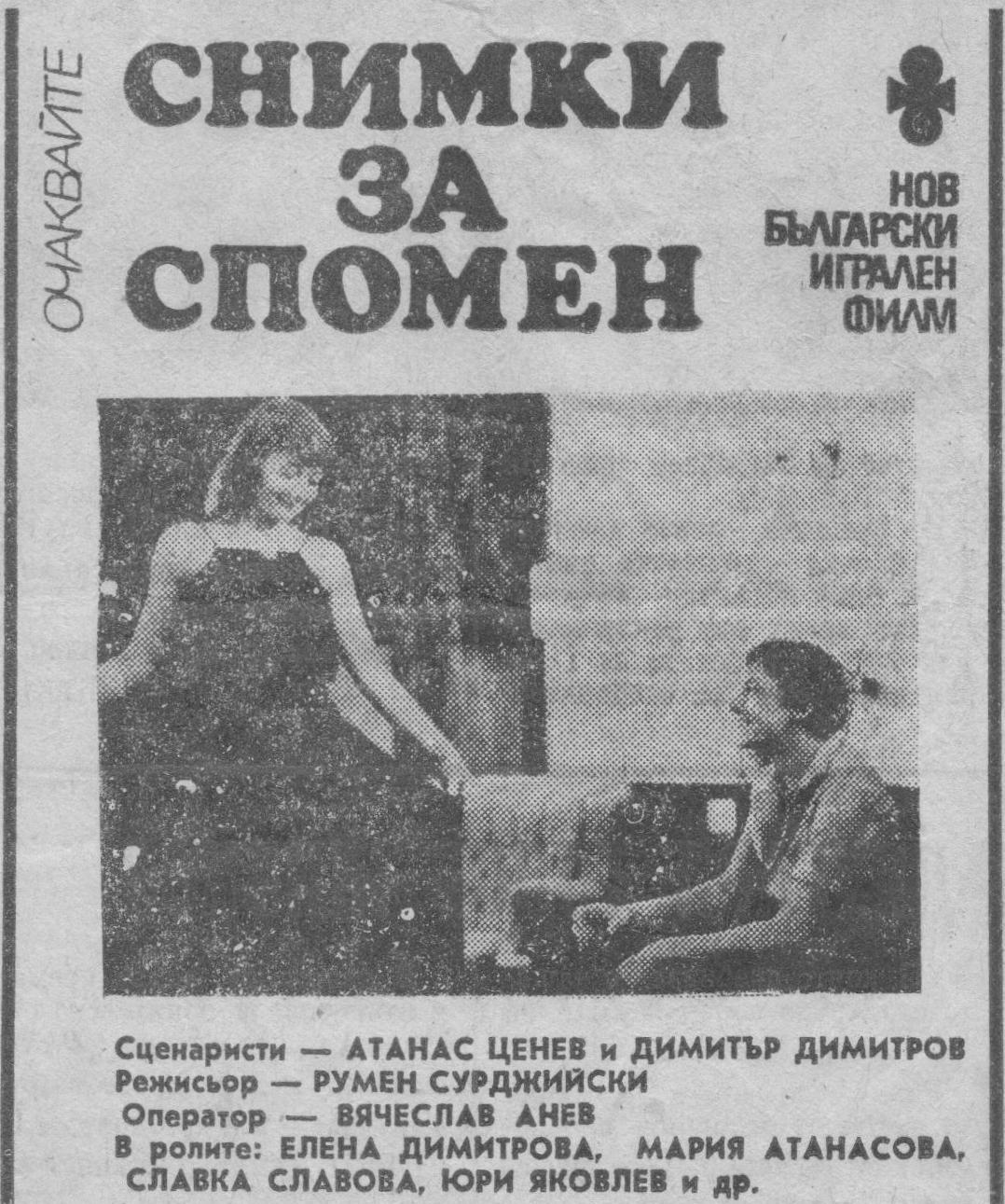 "Snimki za spomen" / "Snapshots as Souvenirs" Scanned мovie advertisement in newspaper (1979)